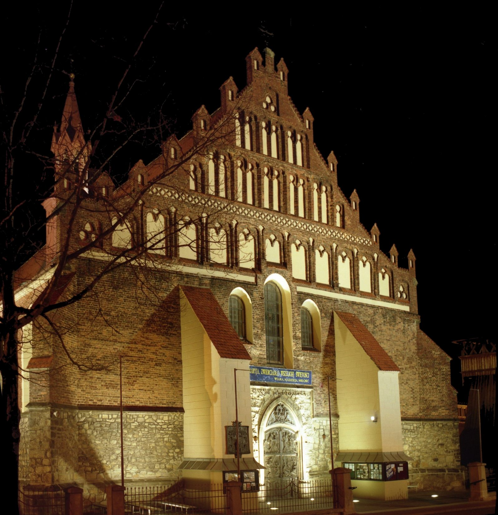 Front of Bochnia's basilica